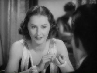 Cropped screenshot of Barbara Stanwyck from the trailer for the film His Brother's Wife